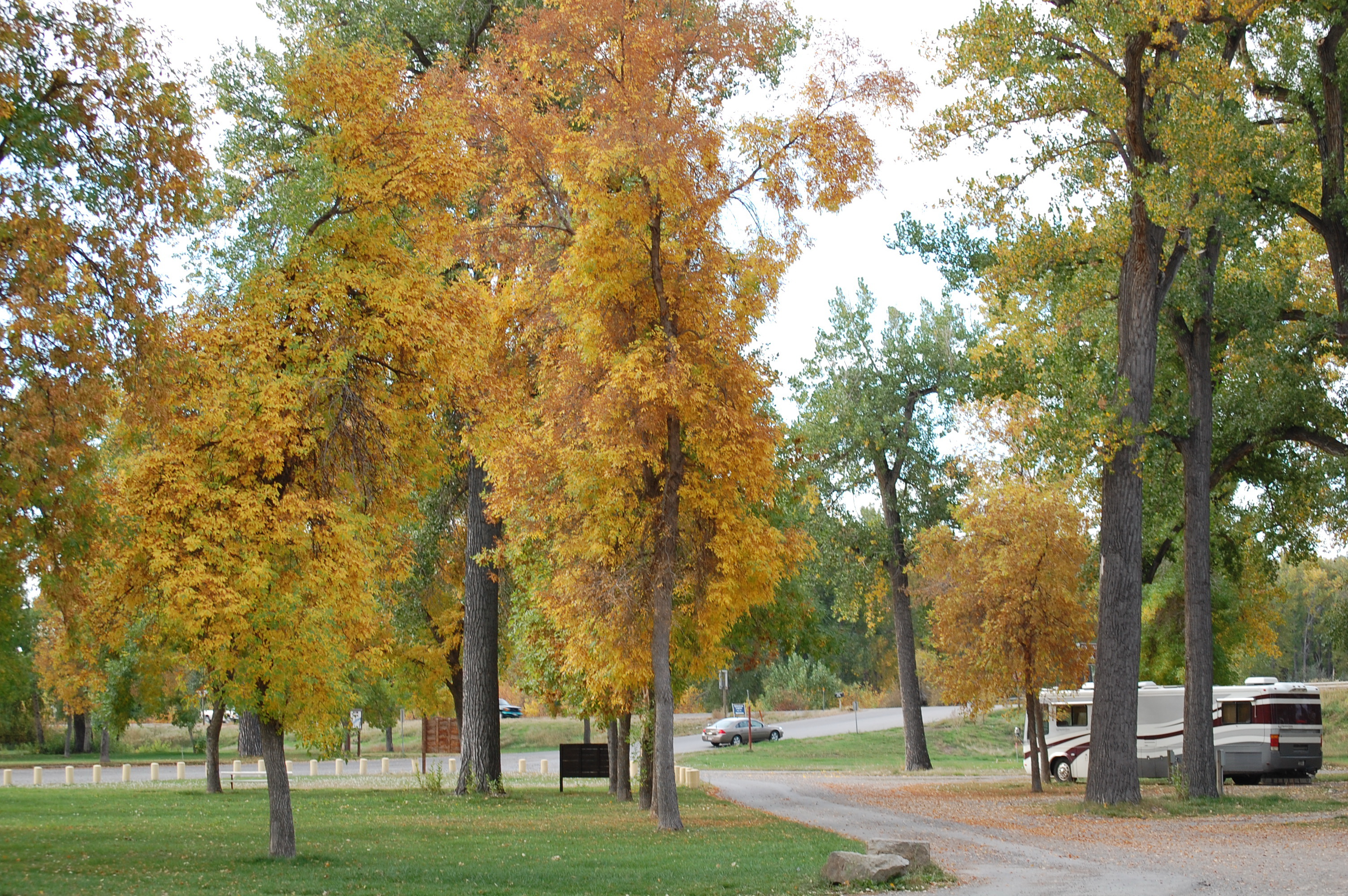 Along the Nez Perce National Historic Trail Riverfront Park, Laurel, Montana, US Forest Service photo, by Roger Peterson